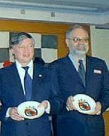 Anatoly Karpov and Boris Kutin, 2002 at Leipzig (125 years of the German Chess Federation).